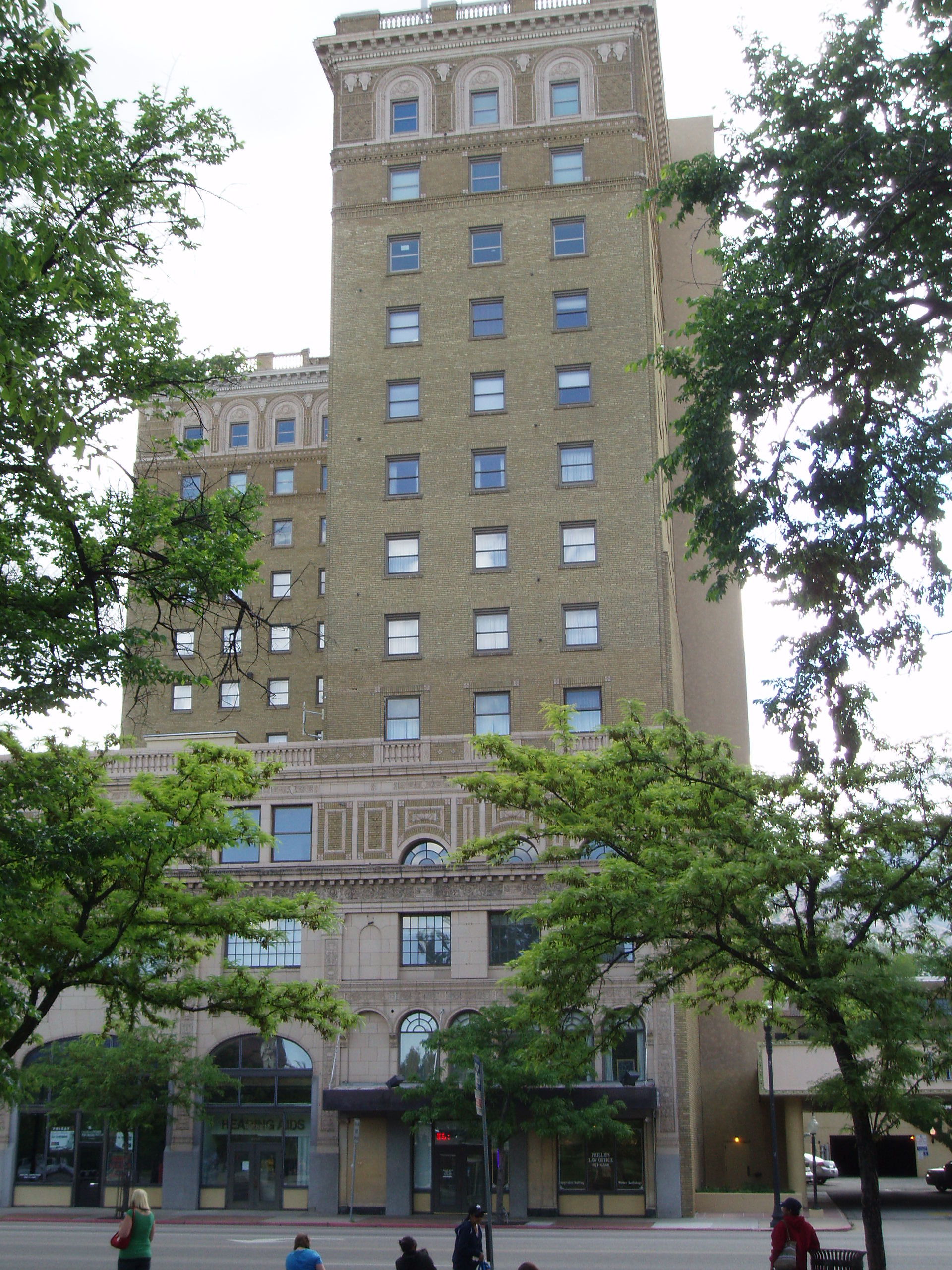 West view of the historic Ben Lomond Hotel, in Ogden, Utah, United States.